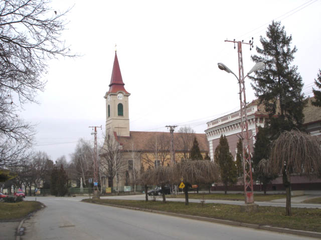 Bačko Petrovo Selo/Péterréve, Vojvodina, Serbia - Center of the town and the Catholic Church. Luftburger